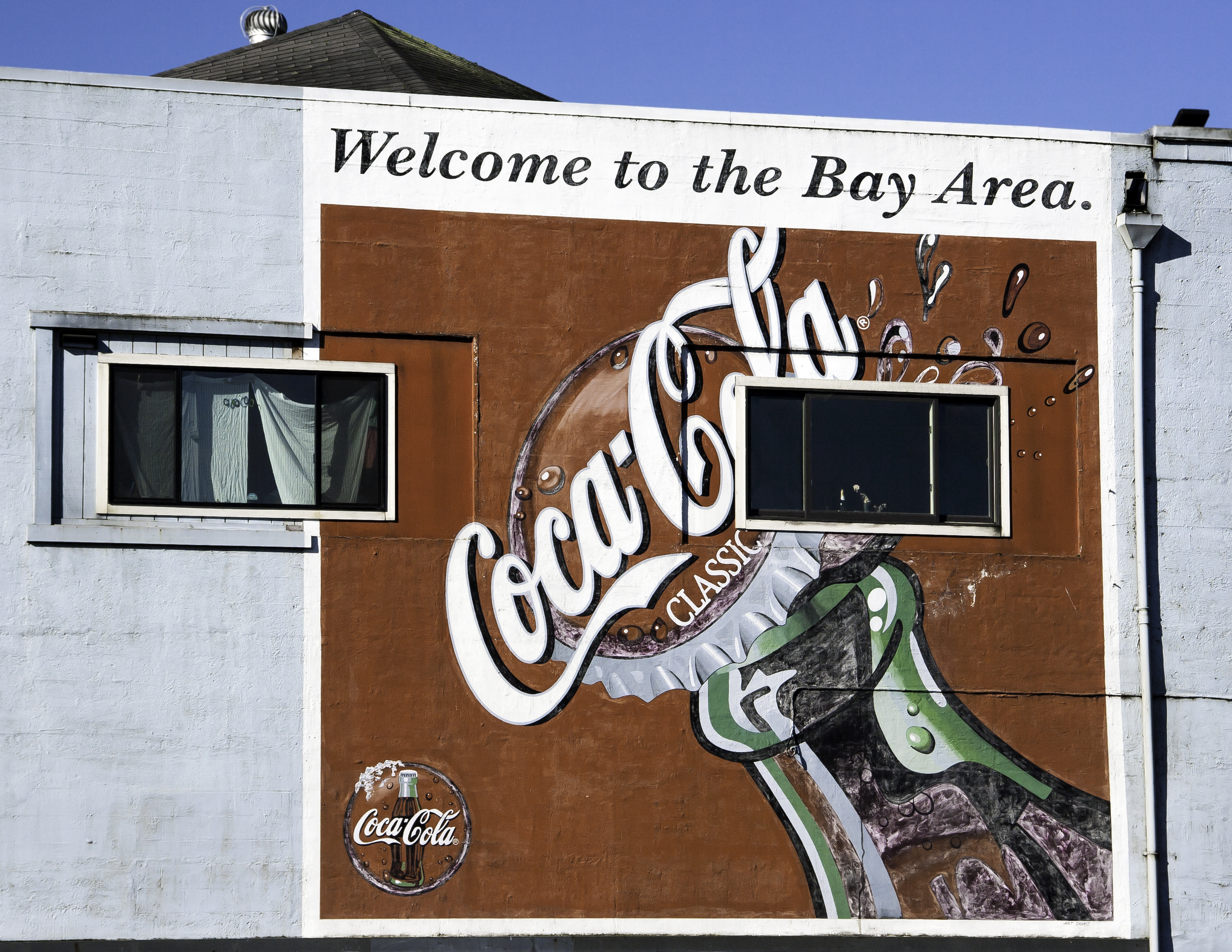 Coca-Cola sign Great sign in Coos Bay. Love the windows breaking things up.